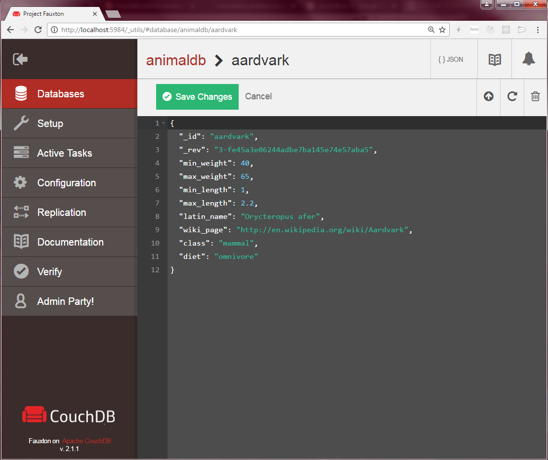 Screenshot of the Apache CouchDB web interface, known as Fauxton, as of version 2.1.1.